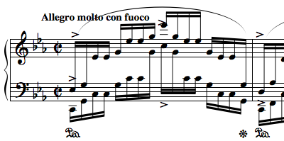 Excerpt from Chopin's Etude Op.25 No.12